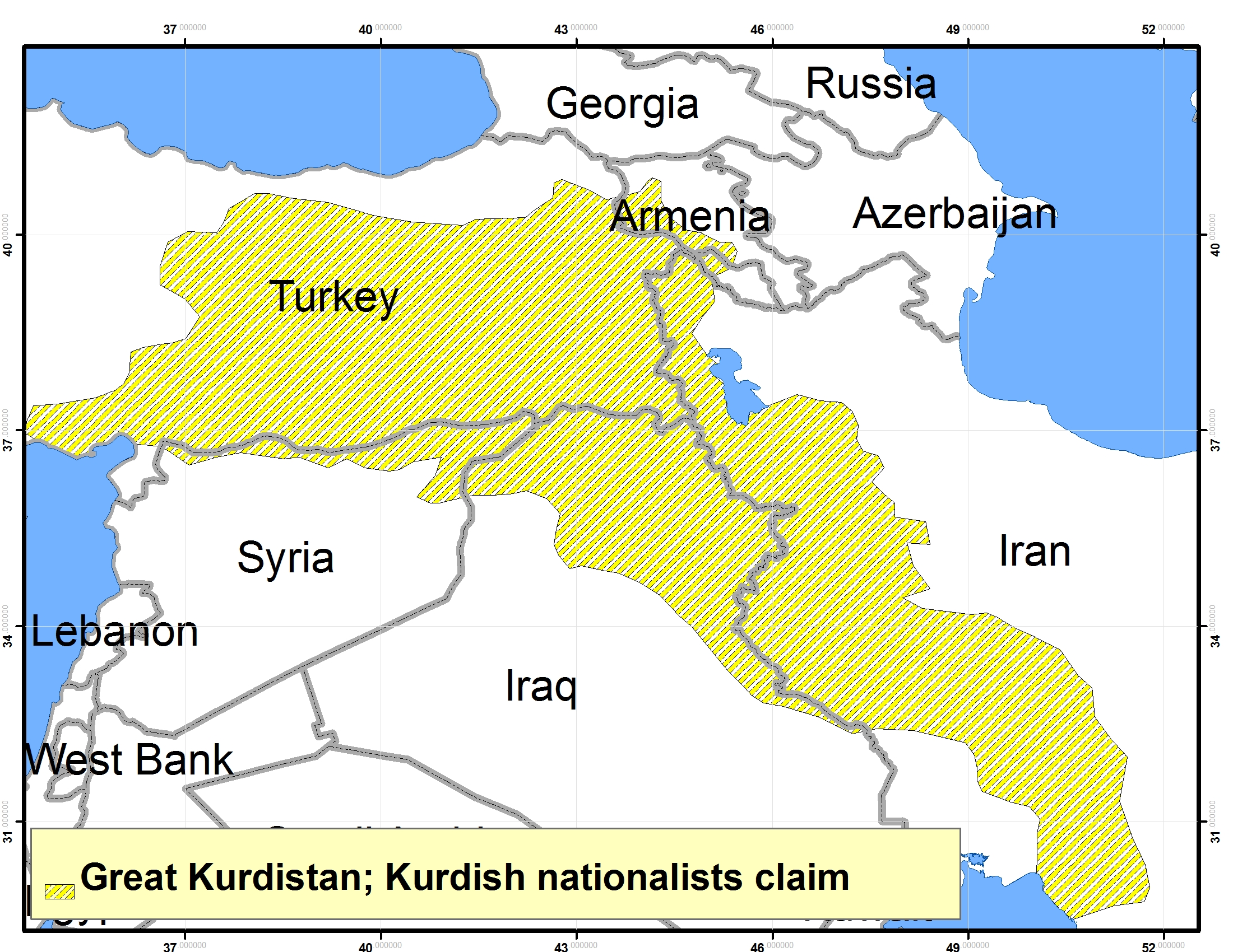 Great Kurdistan; Kurdish nationalists claim